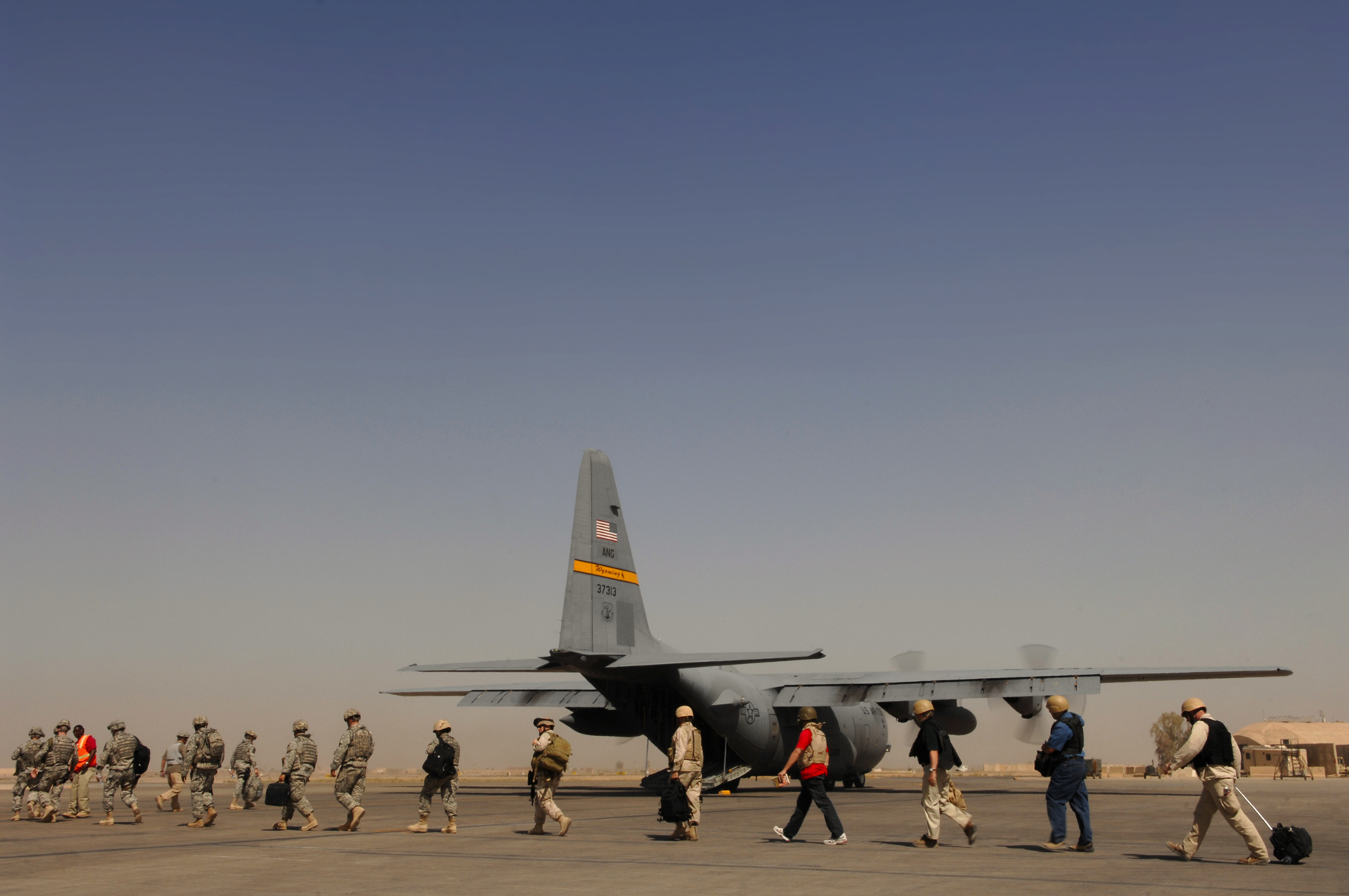 A U.S. Air Force Lockheed C-130H Hercules (s/n 93-7313) from the 187th Airlift Squadron, 153rd Airlift Wing, Wyoming Air National Guard, picks up personnel at Joint Base Balad, Iraq, on 18 June 2008.